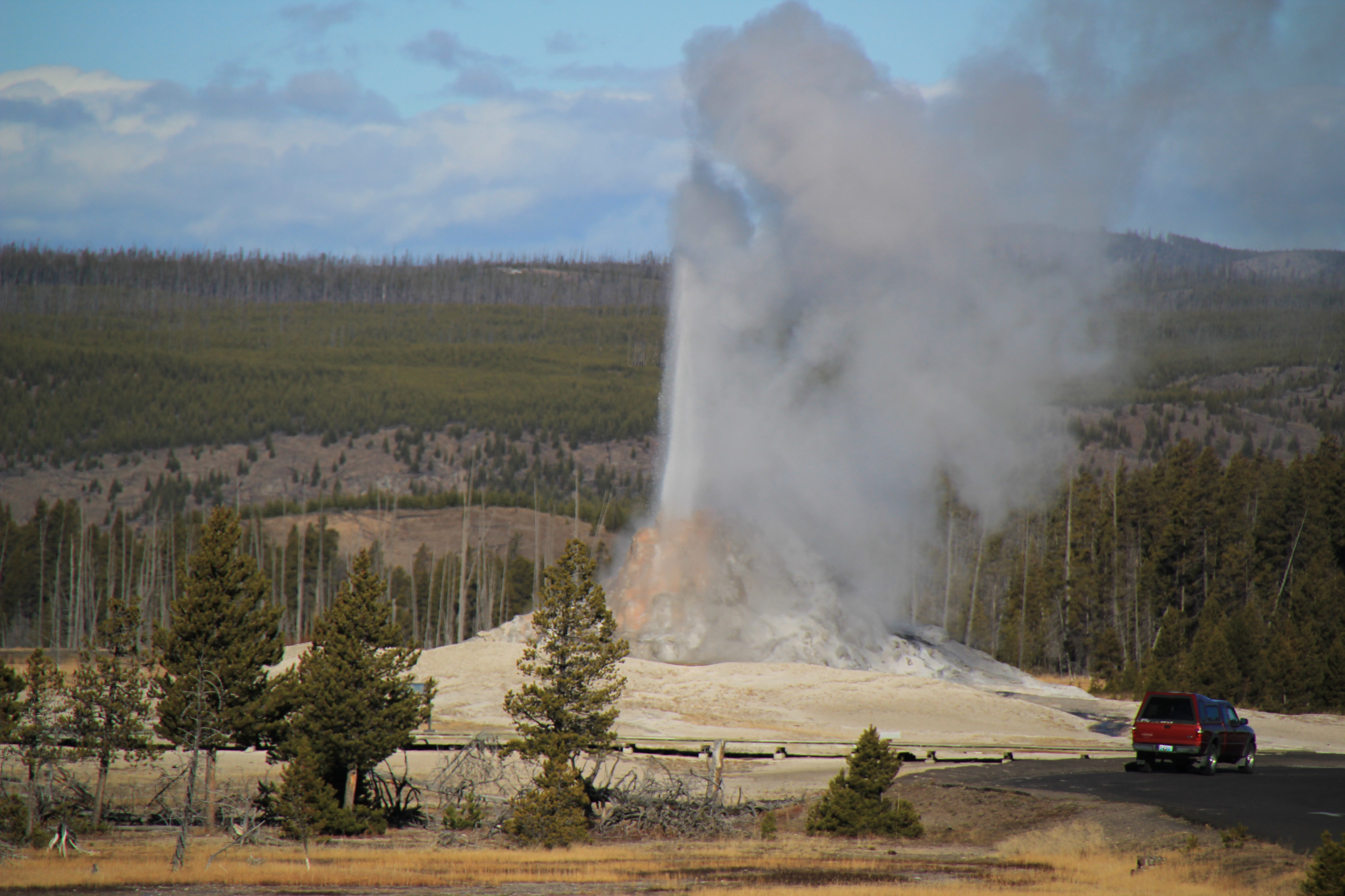 Eruption of the White Dome Geyser located in the Lower Geyser Basin.